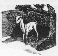 (Removed after reusableart request.)